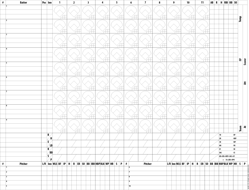 Traditional-style baseball scorecard with pitching statistics. Designed by Christopher Swingley.